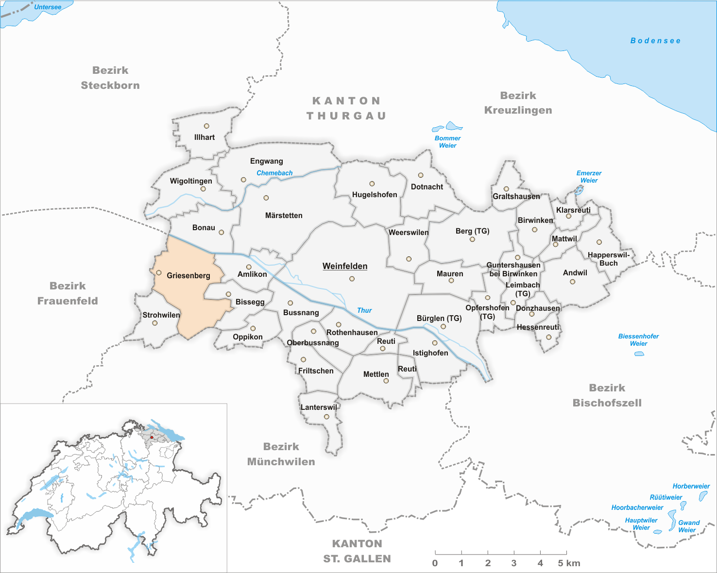 Municipality Griesenberg